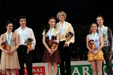 The ice dancing podium at the 2009-2010 Grand Prix of Figure Skating Final. From left: Tessa Virtue / Scott Moir (2nd), Meryl Davis / Charlie White (1st), Nathalie Péchalat / Fabian Bourzat (3rd).